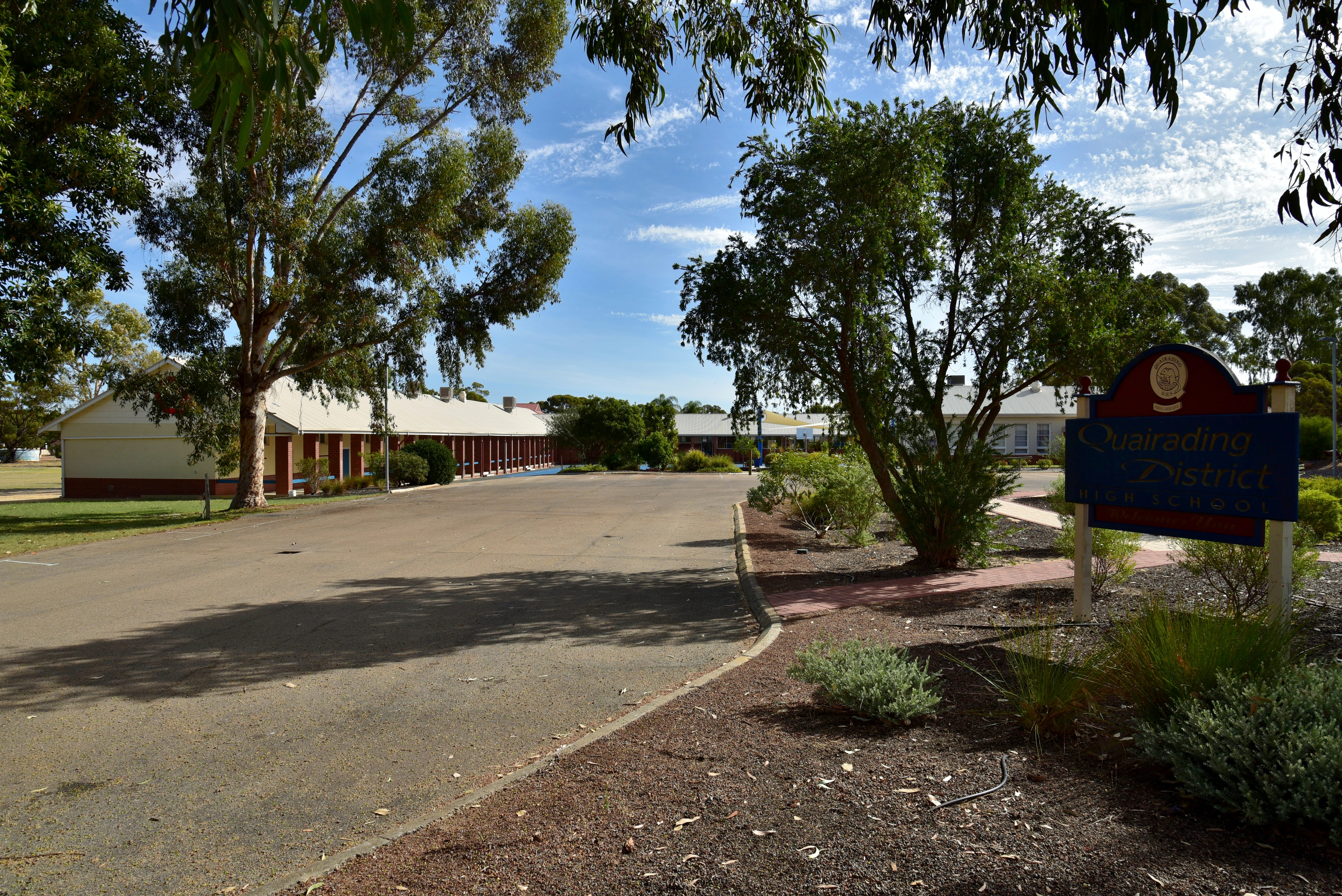 View of the Quairading District High School, Quairading, Western Australia